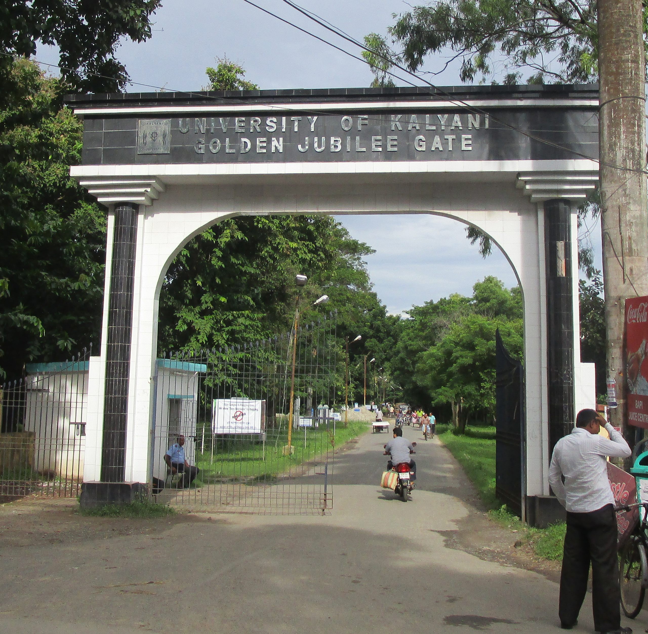 University of Kalyani, gate